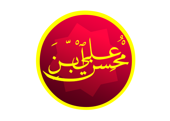 Muhsin bin ali